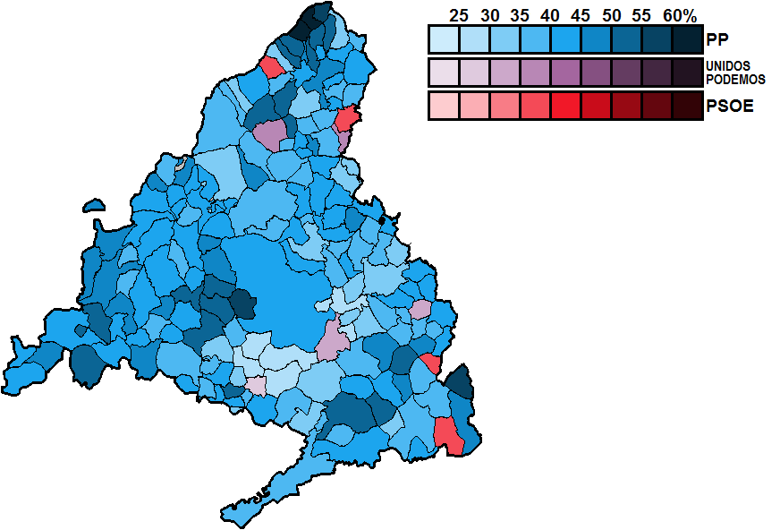 Most-voted party in Madrid municipalities, showing vote share obtained, in the Spanish general election, 2016.